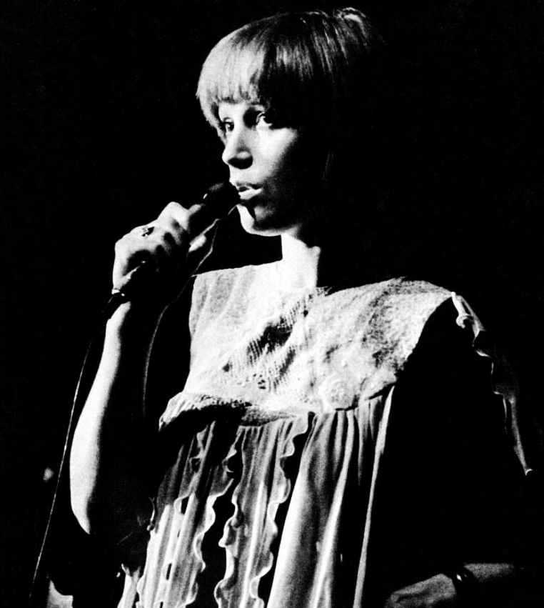 Trade ad for Kiki Dee's single "I've Got the Music in Me".To better adapt it to his respective Wikipedia article, the ad was cropped and cleaned in a graphics editing program. The original can be viewed at the source below.